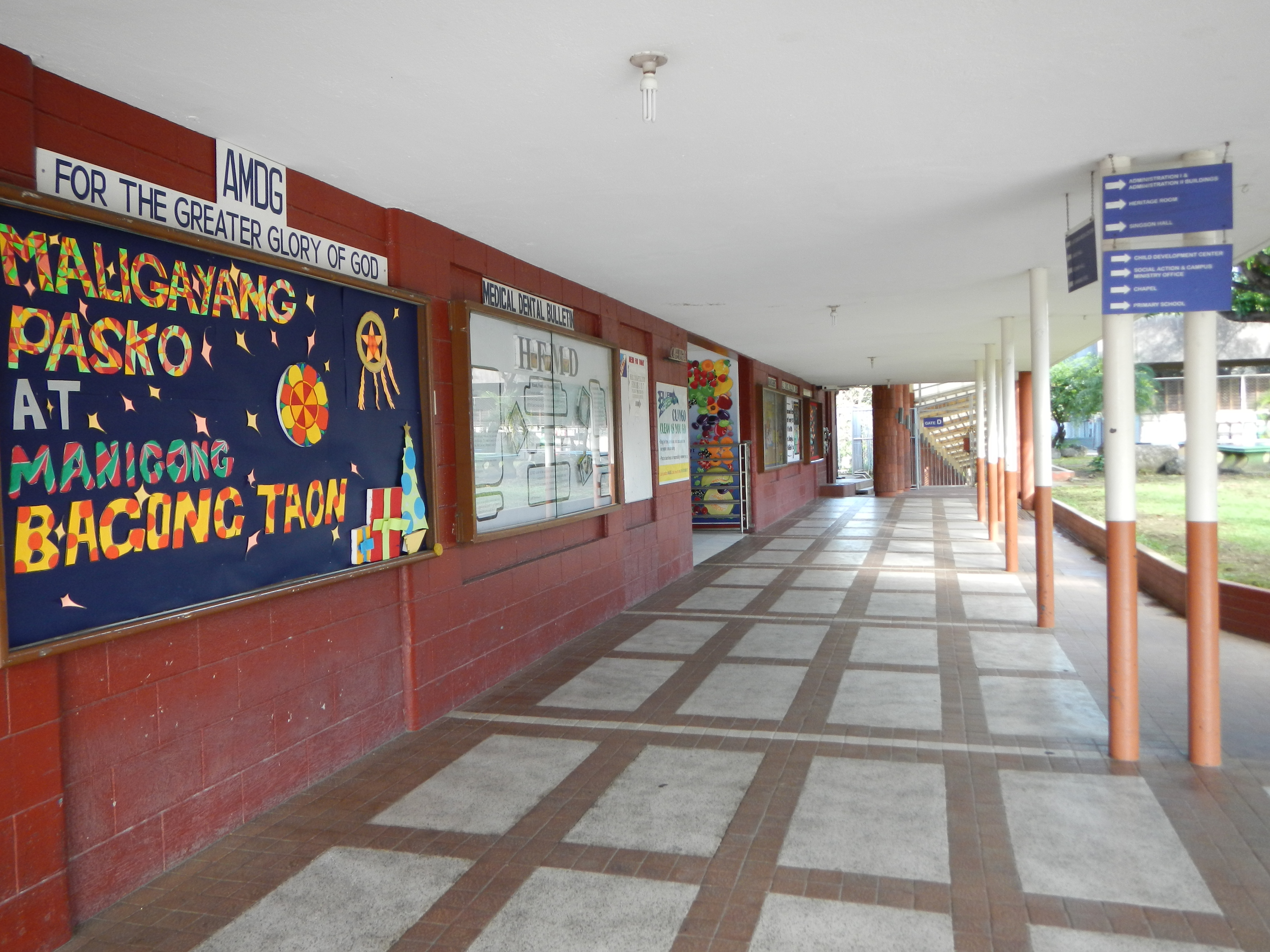 Ateneo de Manila University Grade_School [1][2]